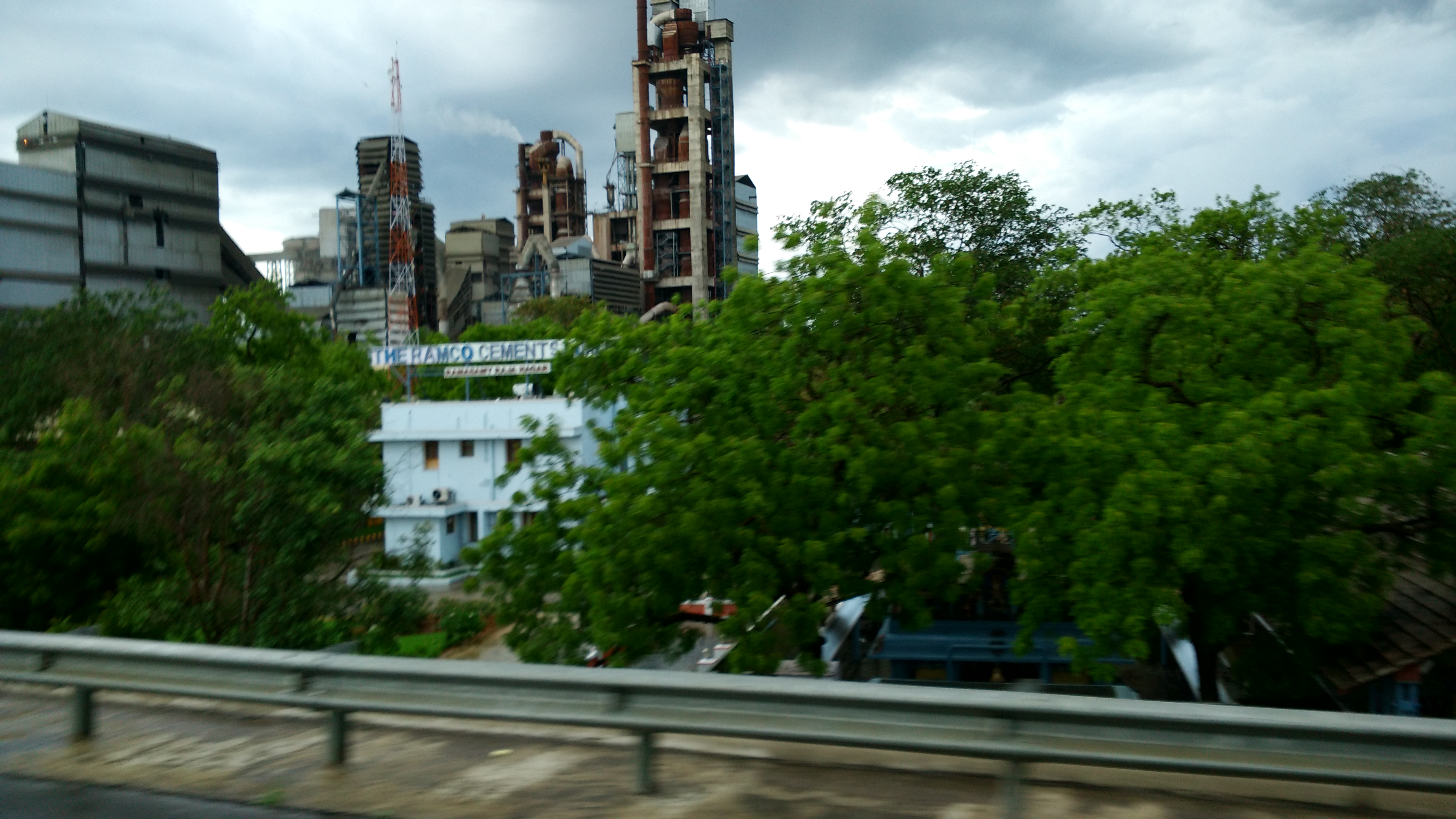 Ramasamy Raja Nagar Plant, Virudhunagar, Tamil Nadu (200 TPD) started in 1961